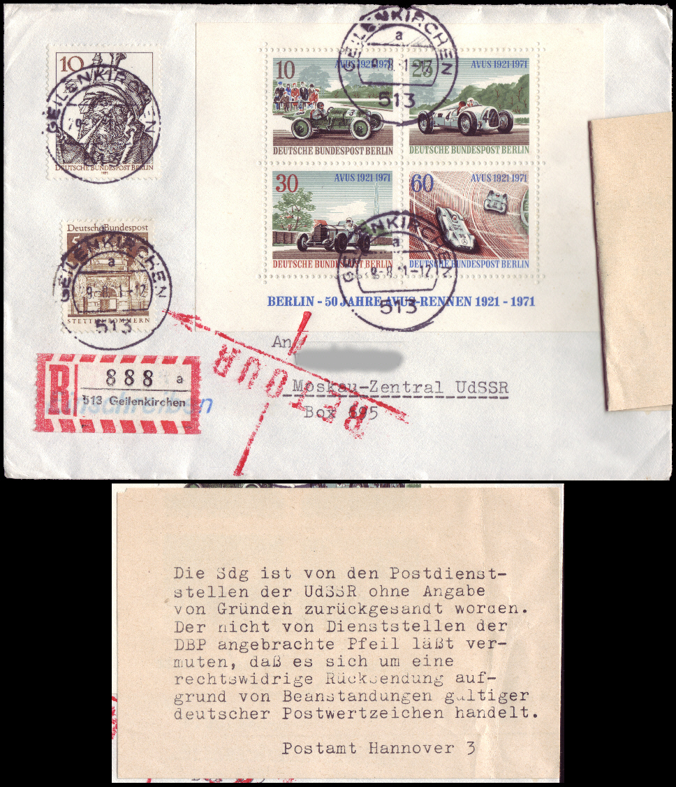 Envelope of the "Cold War" period done by the post, dated from 1979. The former USSR and the other countries in the east most likely found fault with official stamps of Germany with a building of the Polish city Szczecin (became Polish after the 2nd WW) and the German titel STETTIN / POMMERN like it was before and during the 2nd WW). So the letter has not been delivered but sended back to the sender marked with "RETOUR".The additional note stuck on the envelope with explanation of the return was made by the "Deutsche Bundespost"